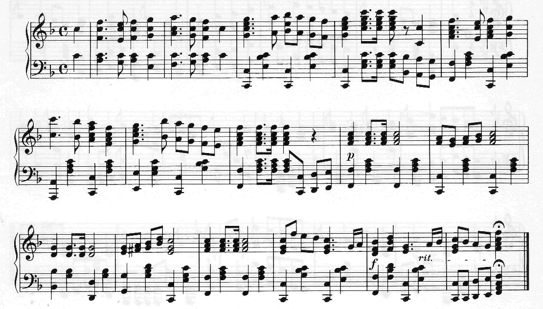 Music sheet of Sorud-e Shahanshahi Iran, (Pahlavi dynasty).